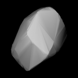 3D convex shape model of 2181 Fogelin, computed using light curve inversion techniques. J. Hanuš, J. Ďurech, M. Brož, B. D. Warner (June 2011). "A study of asteroid pole-latitude distribution based on an extended set of shape models derived by the lightcurve inversion method". Astronomy and Astrophysics 530: A134. ISSN 0004-6361. arXiv